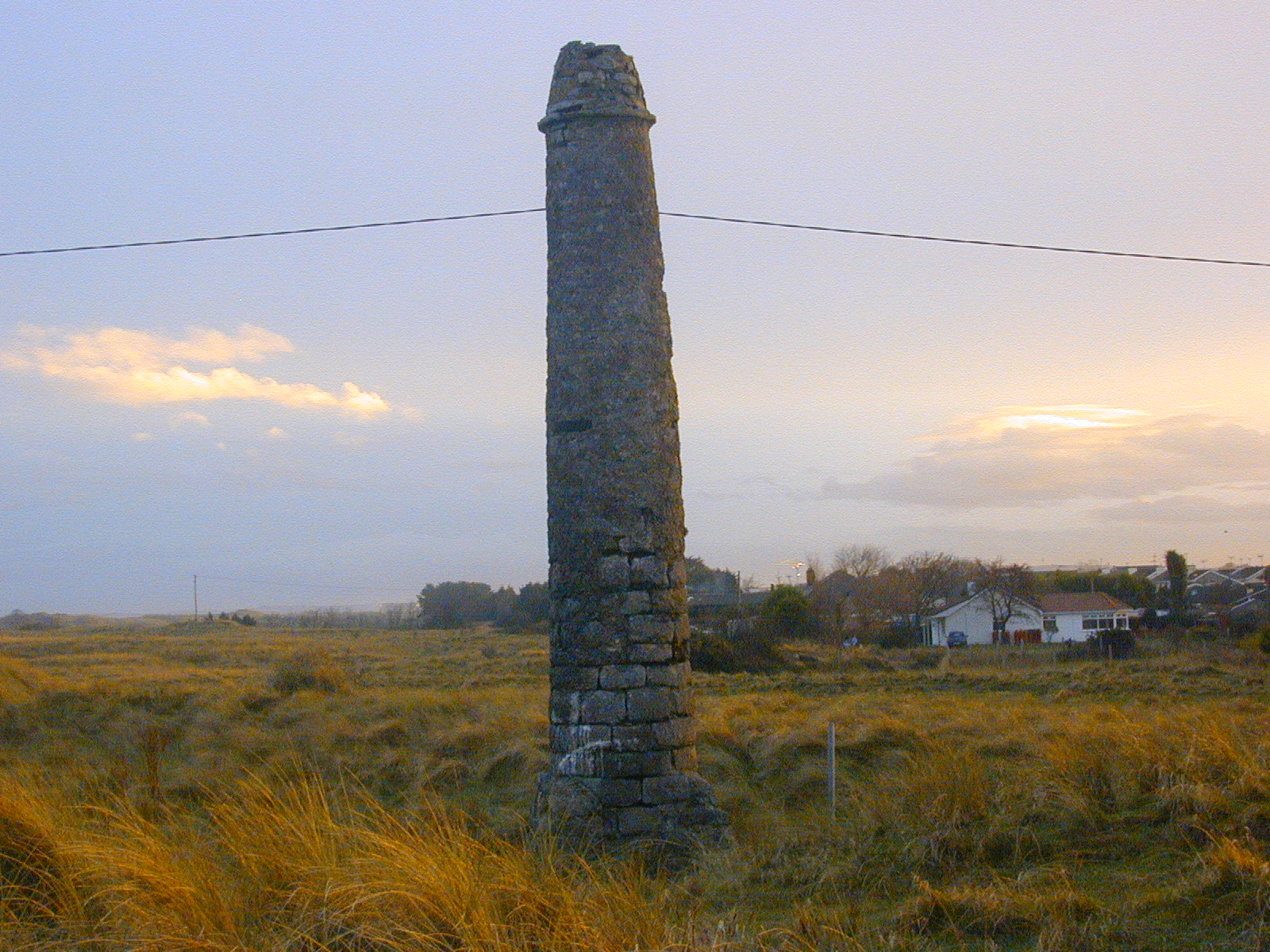 This is the lady's finger. Its is called this because it appears to be a finger - Mornington, County Meath